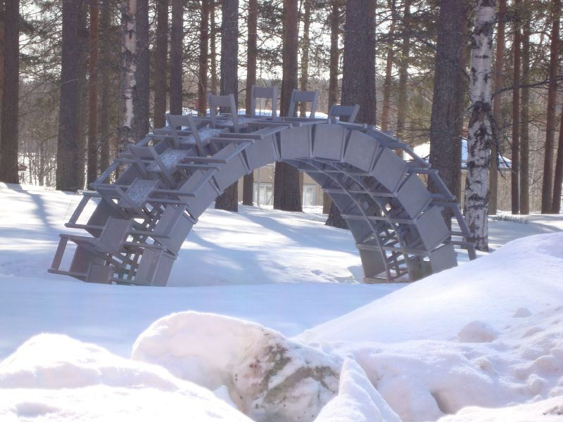 Umeå sculpture park/Sweden with Klassreca (2008) by Kari Cavén#